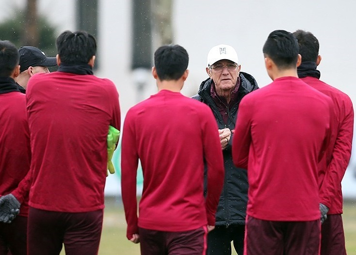 China national football team in Tehran before 2018 WCQ game with Iran